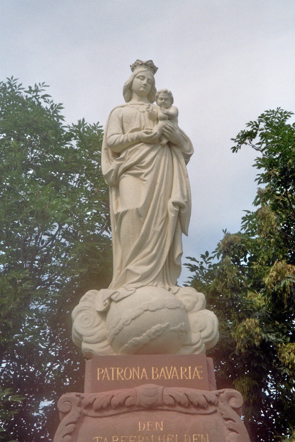 Statue of Holy Mary located in Hausen, a quarter of the German spa town of Bad Kissingen (Lower Franconia, Bavaria).